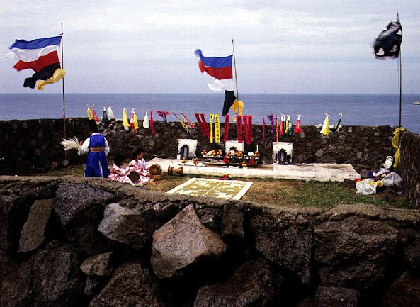 Jeju Island shamanic ritual to Yeongdeung, god of wind, which became a UNESCO Intangible Cultural Heritage in 2009.